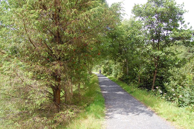 The Mawddach Trail near Dolgellau At this point the trail follows the south bank of Afon Wnion.